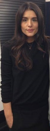 British singer Jessie Ware in December 2014.